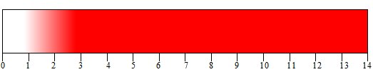 Chemistry